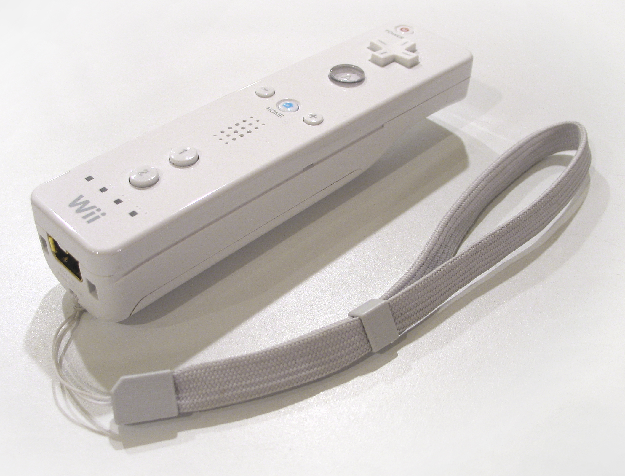 An image of the Wii remote (with wrist strap) taken by myself with a Canon A610 camera and given minor edits in Adobe Photoshop.